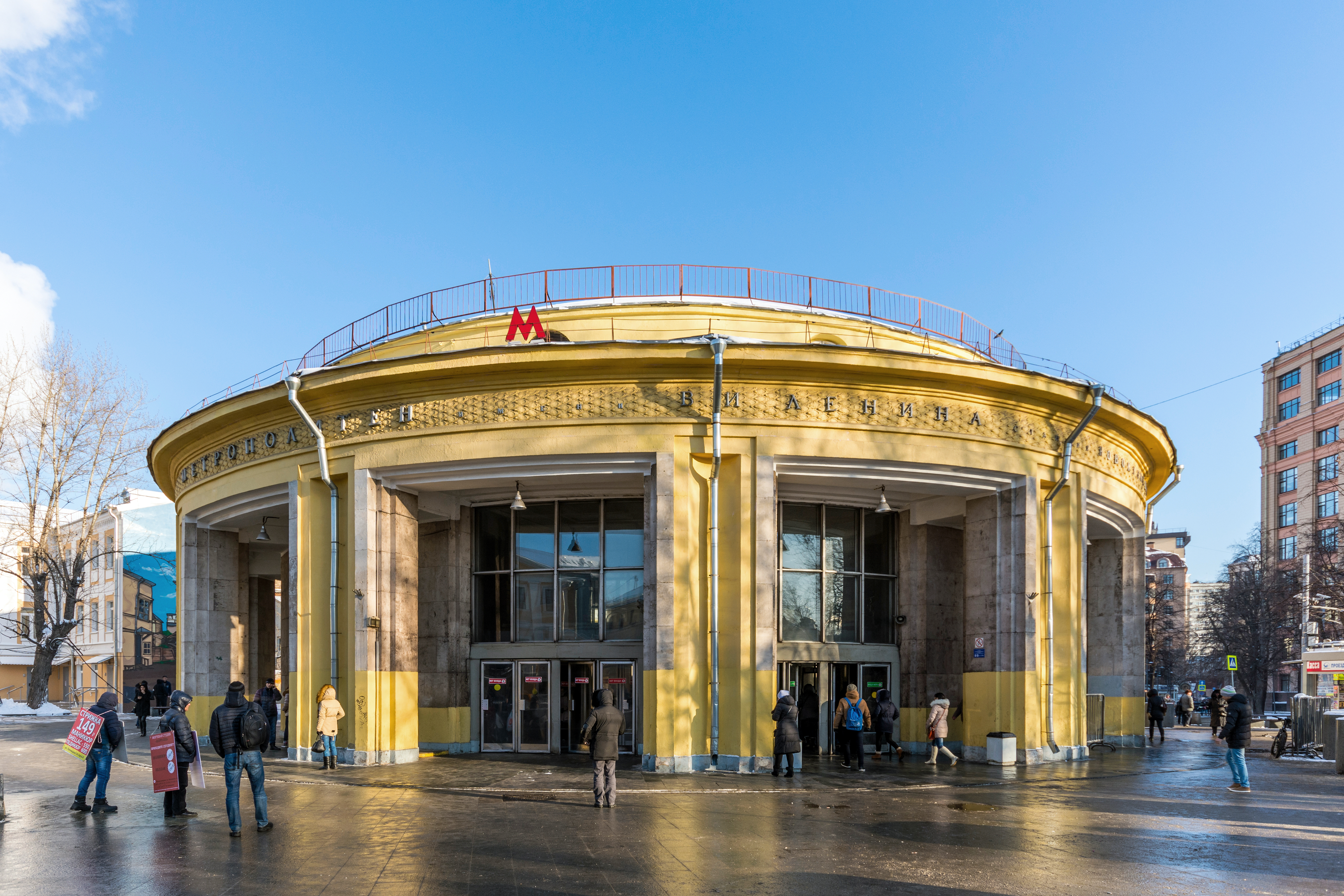 Novokuznetskaya Station of Moscow Subway